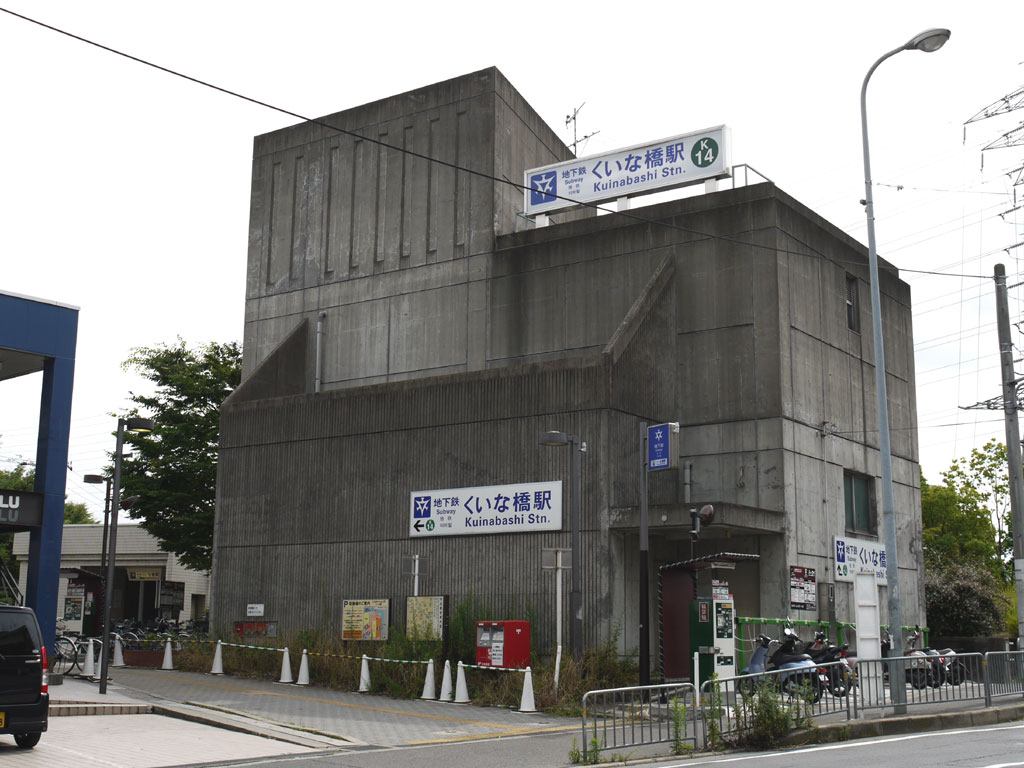 Kyoto Subway Karasuma Line Kuinabashi Station Entrance No1